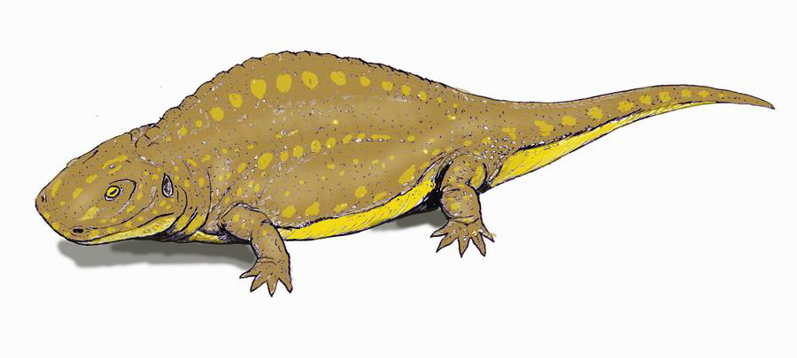 Sclerothorax- reconstruction autor - Bogdanov